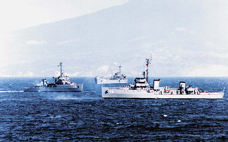 Philippine Navy vessels exercise in connection with the combined amphibious operation.